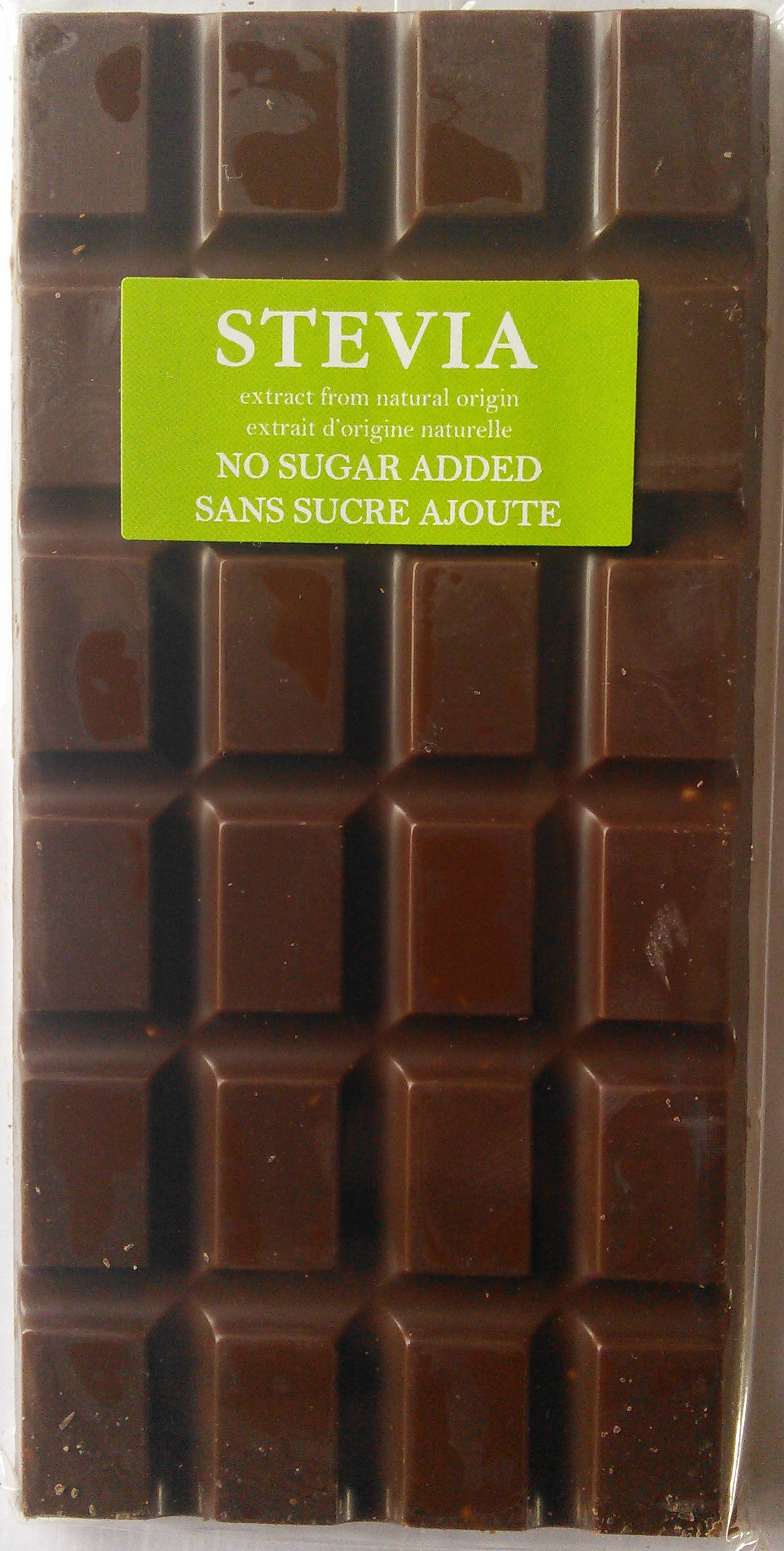 A tablet stevia chocoalte from Stevia Natural